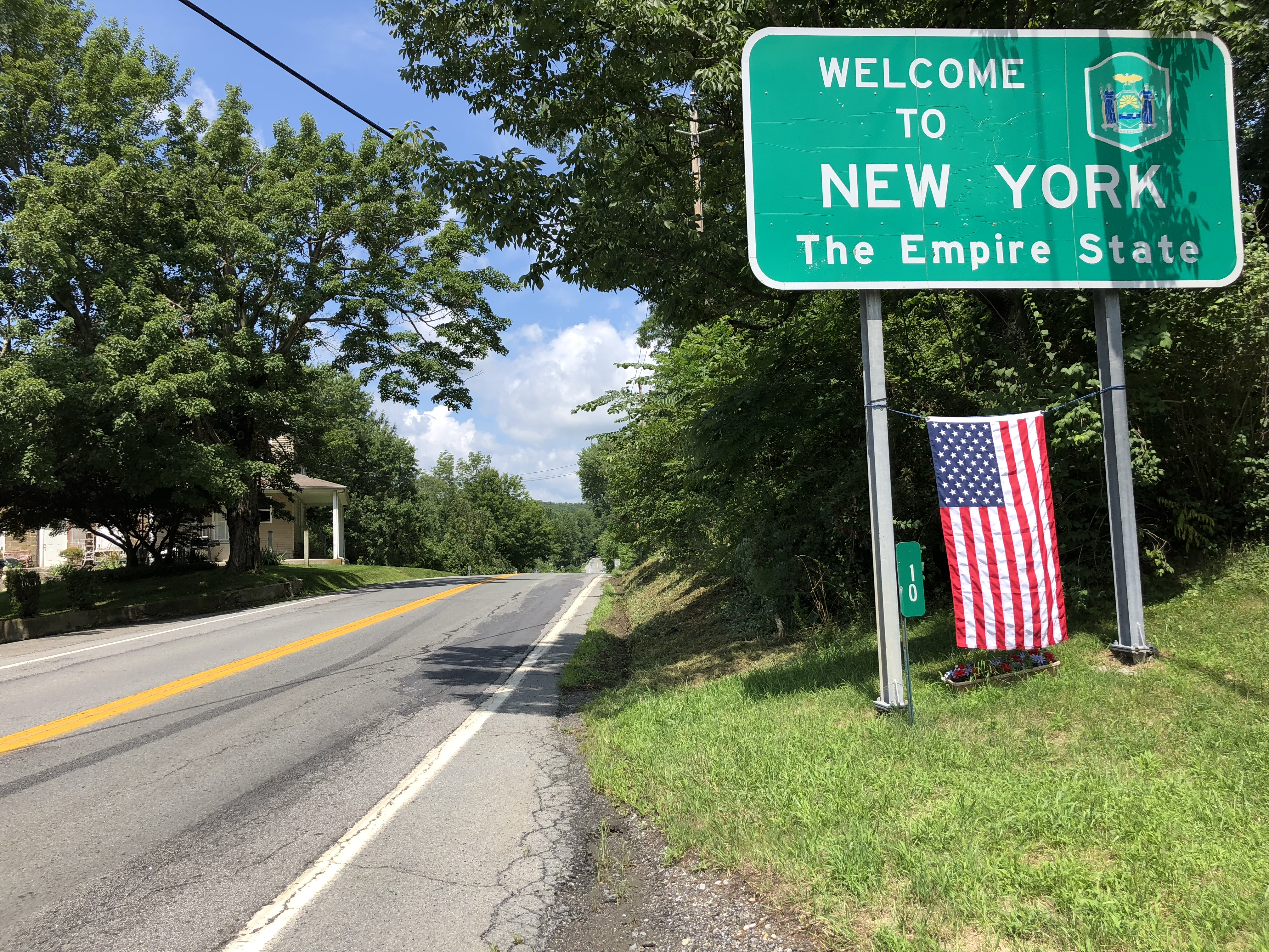 "Welcome to New York" sign along northbound New York State Route 284 just after entering Minisink, Orange County, New York from Wantage Township, Sussex County, New Jersey